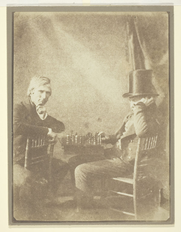 Salted paper print possibly by Henry Fox Talbot